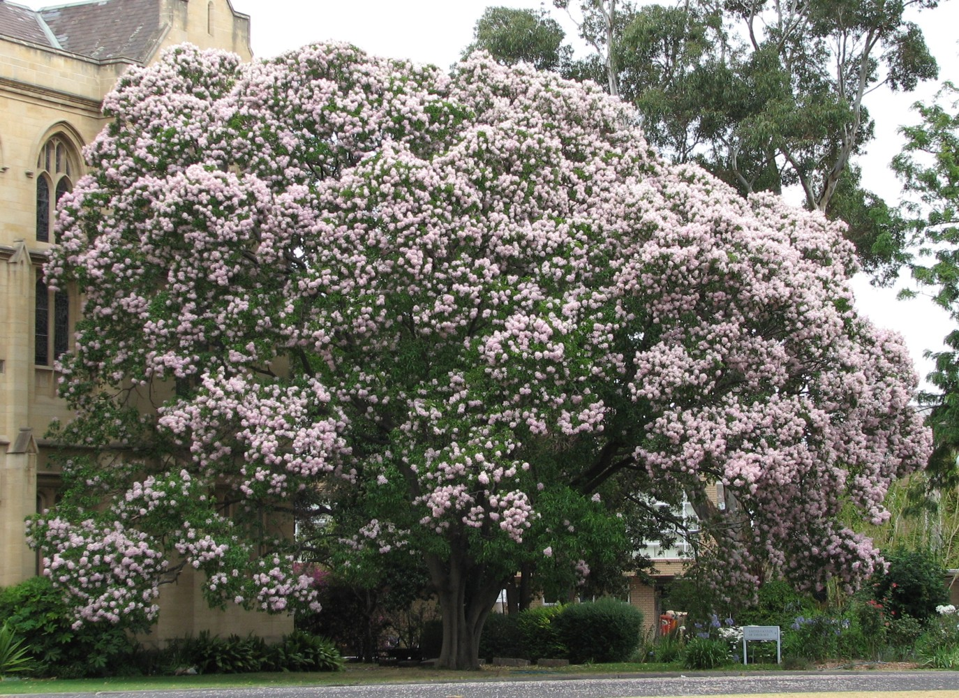 Calodendrum capense, Queens College, Parkville, Victoria, Australia.